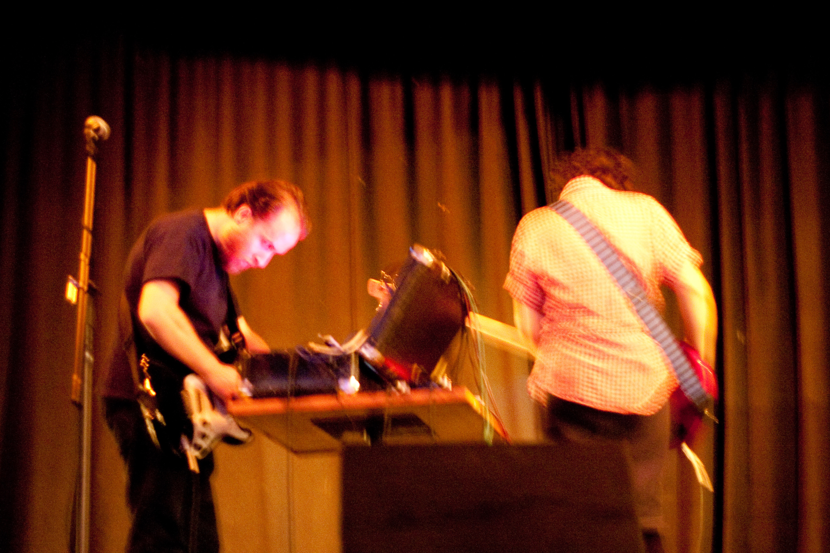 Nadja live in Toronto, 2009